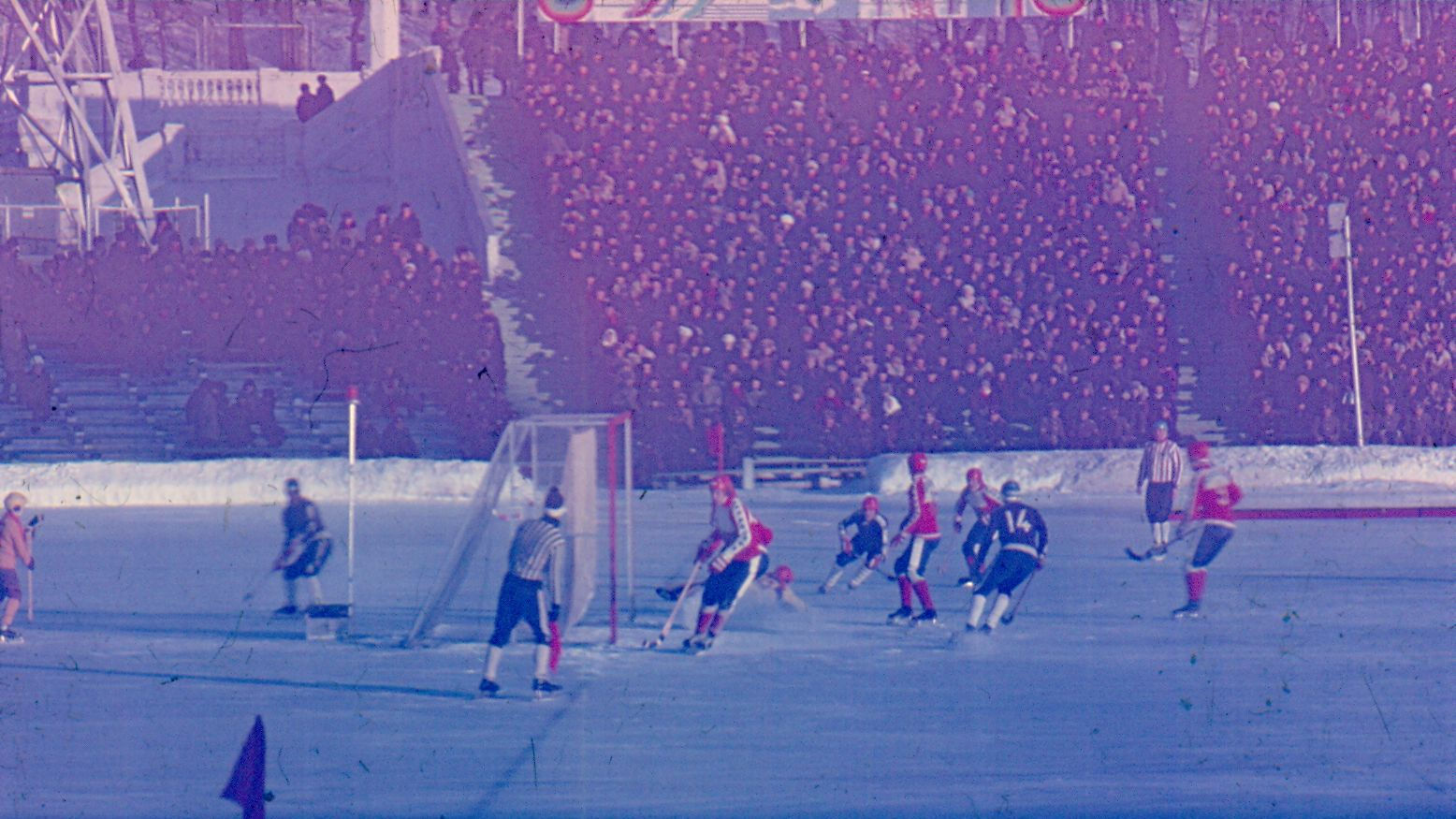 Чемпионат СССР, СКА Хабаровск - Енисей Красноярск, 1982 год.